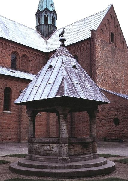 Sorø Klosterkirke. Well designed by Martin Nyrop. (1912)